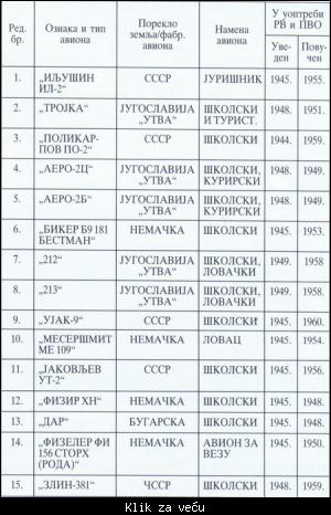 VZ ORAO pregled